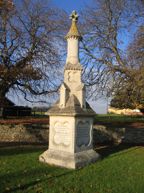 John Clare Memorial, Helpston, Peterborough. Poet born in the village 1793, died 1864 in Northampton Lunatic Asylum but buried in the nearby churchyard.